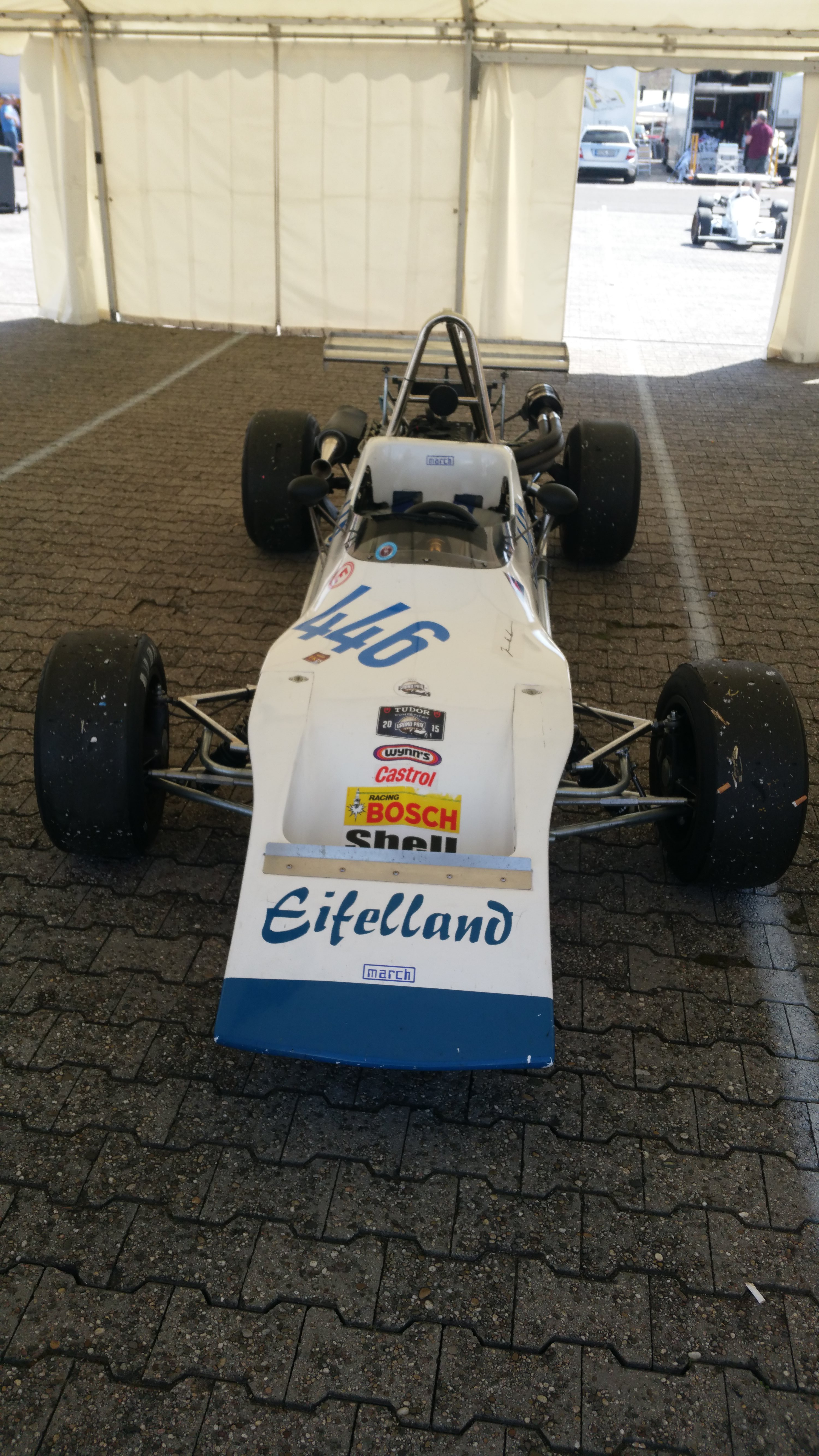 March 713 at the 2018 Hockenheim Historic event at the Hockenheimring.